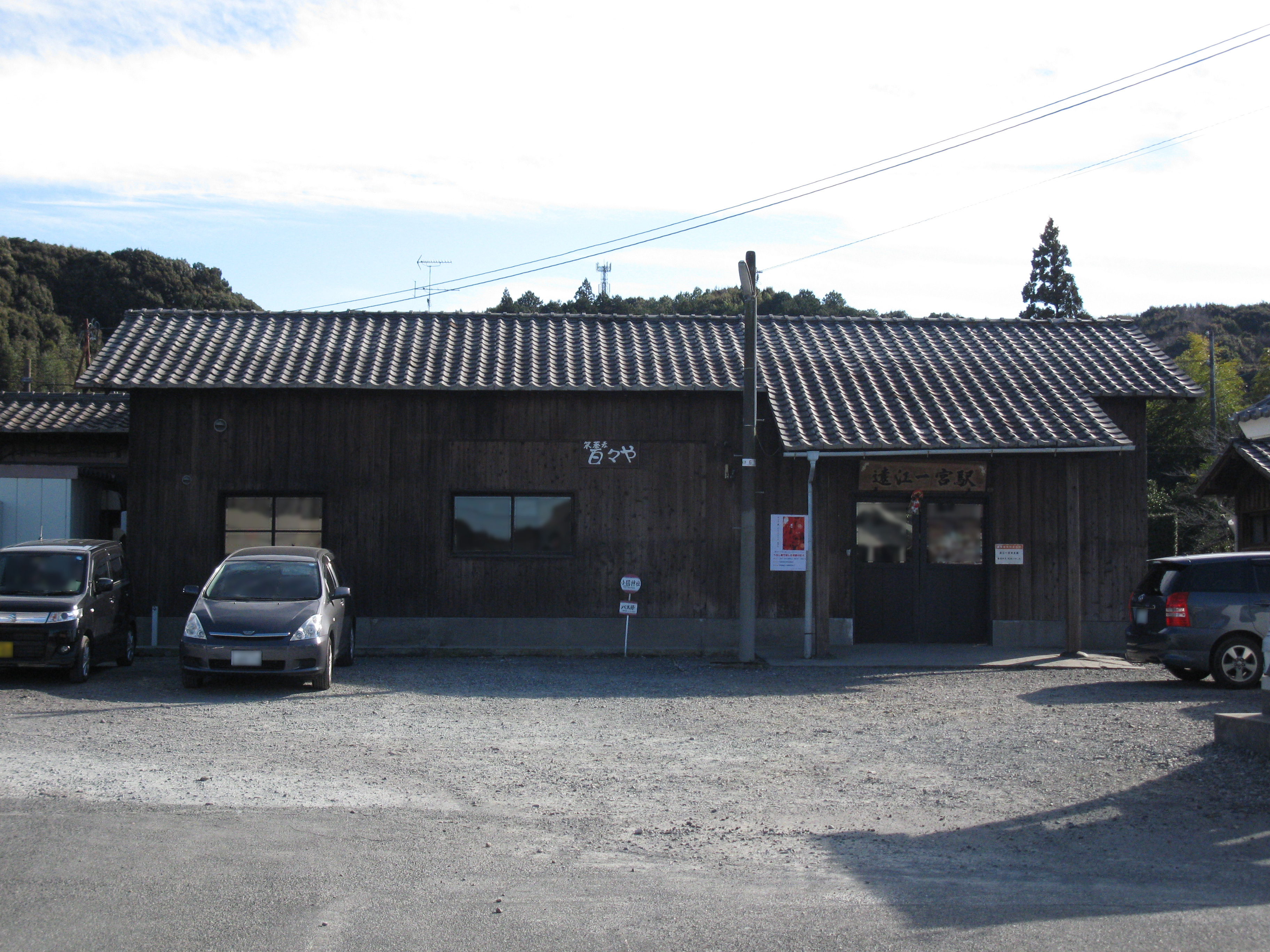 The building of Tōtōmi-Ichinomiya Station, Tenryū Hamanako Railroad Tenryū Hamanako Line